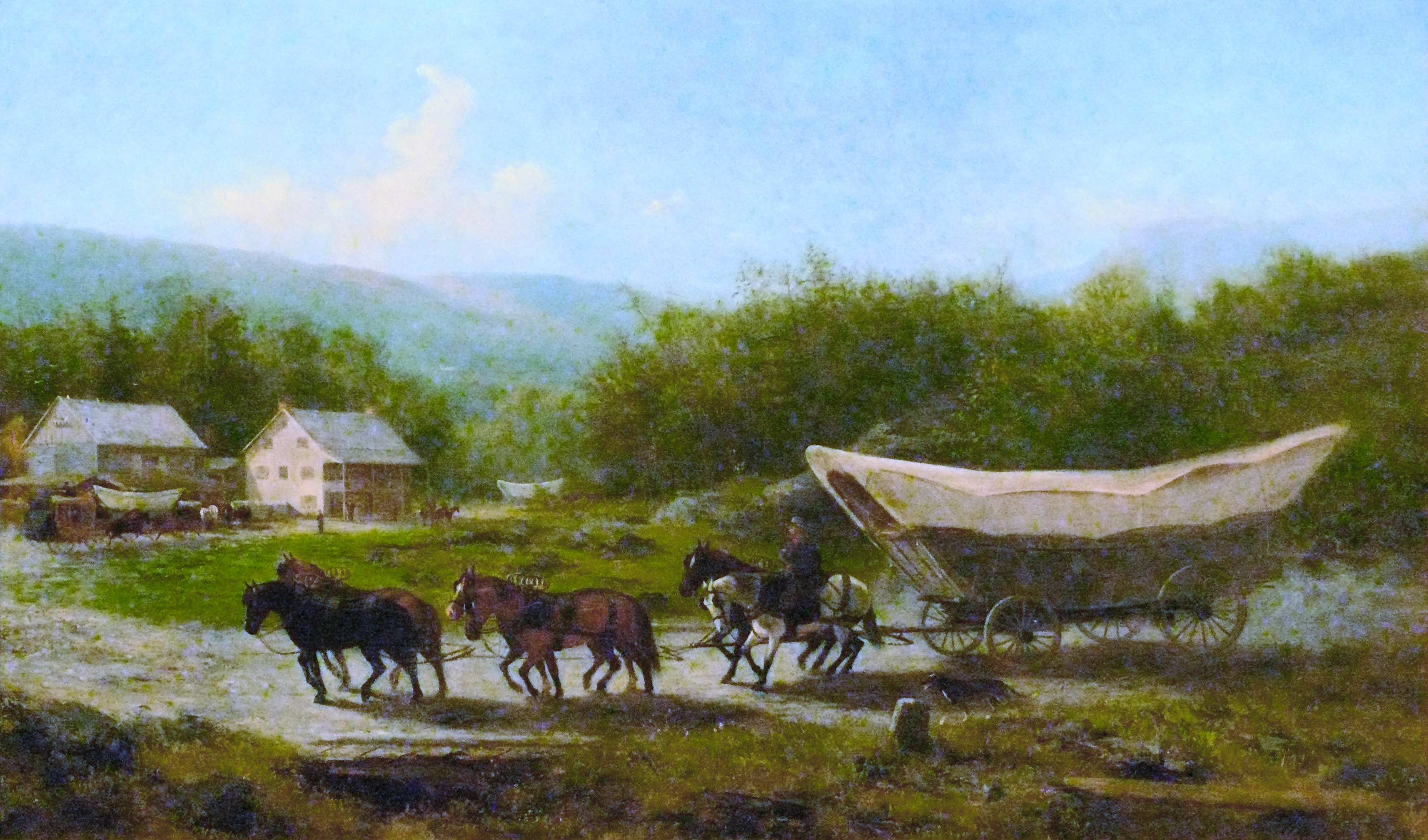 Conestoga Wagon (1883) by Newbold Hough Trotter (1827-1898). Painting in the State Museum of Pennsylvania